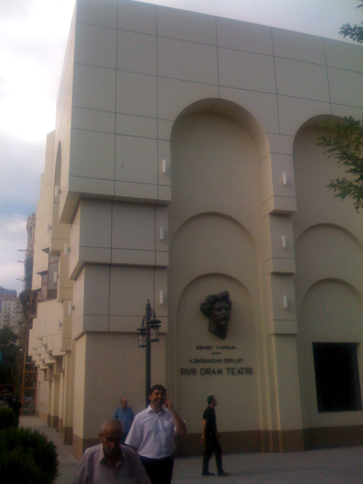 Azerbaijan State Russian Drama Theatre, Baku Summary Azerbaijan State Russian Drama Theatre, Baku